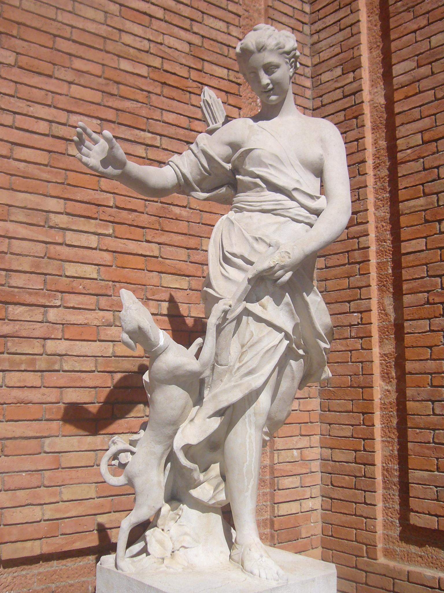 Sculptures in gardens of Palauet Albéniz, Barcelona. "Companya de Diana". Sculptor: Josep Miret i Llopart. (1970)